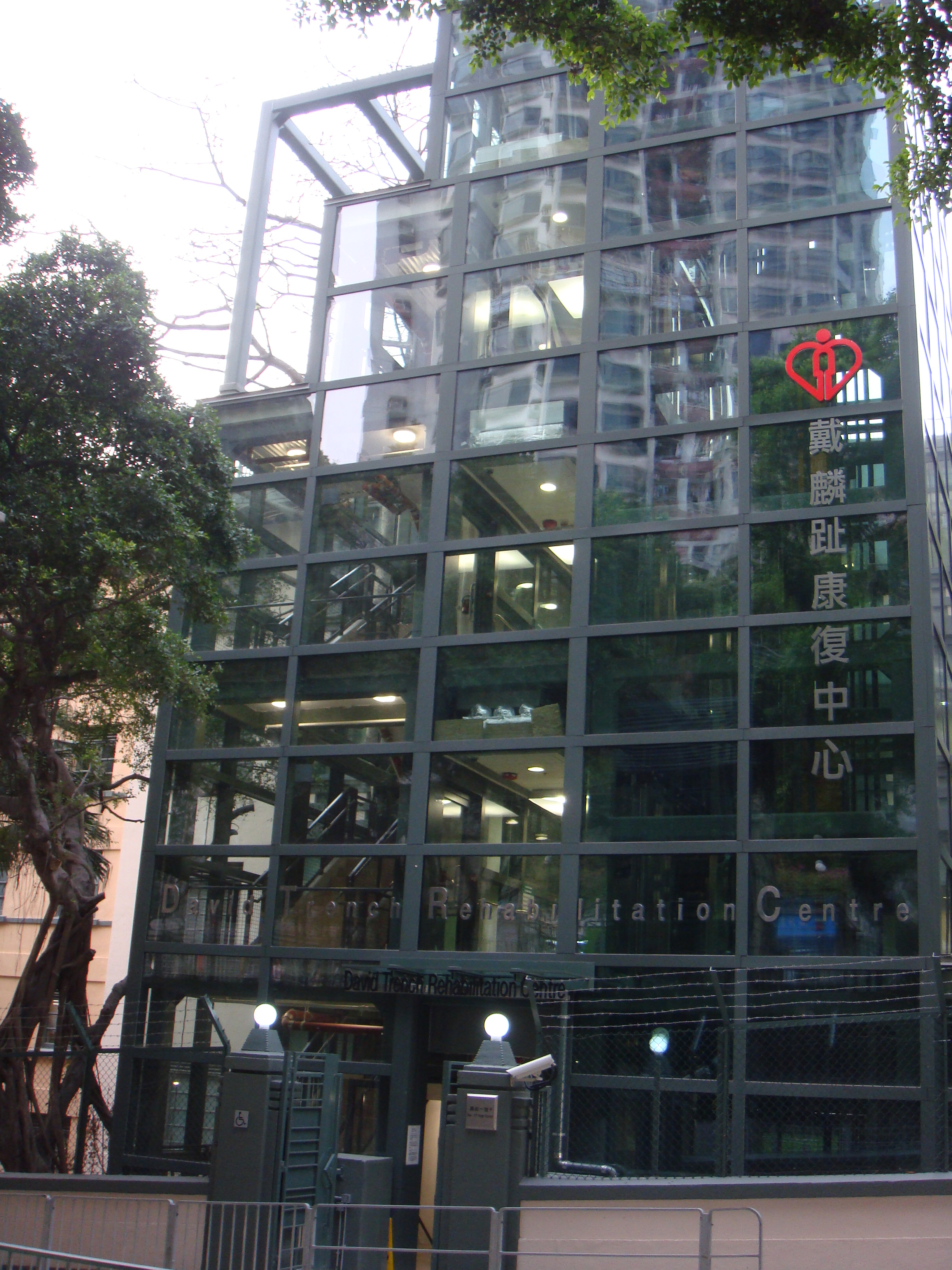 The south wing of the David Trench Rehabilitation Centre, Hong Kong 中文（香港）: 香港戴麟趾康復中心 南翼